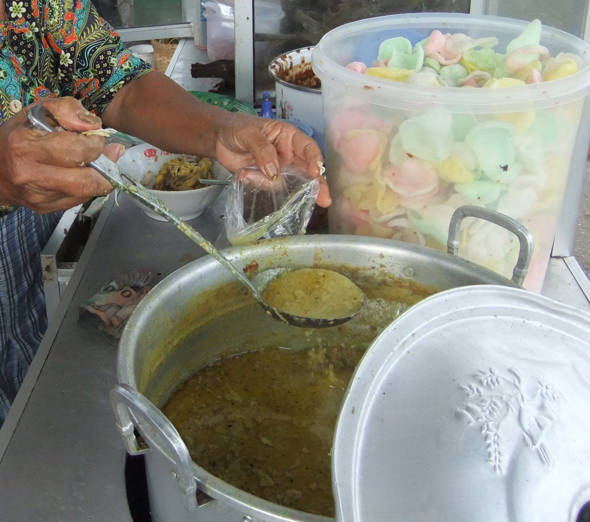 Lontong Opor, common breakfast in Cilacap, Central Java, Indonesia